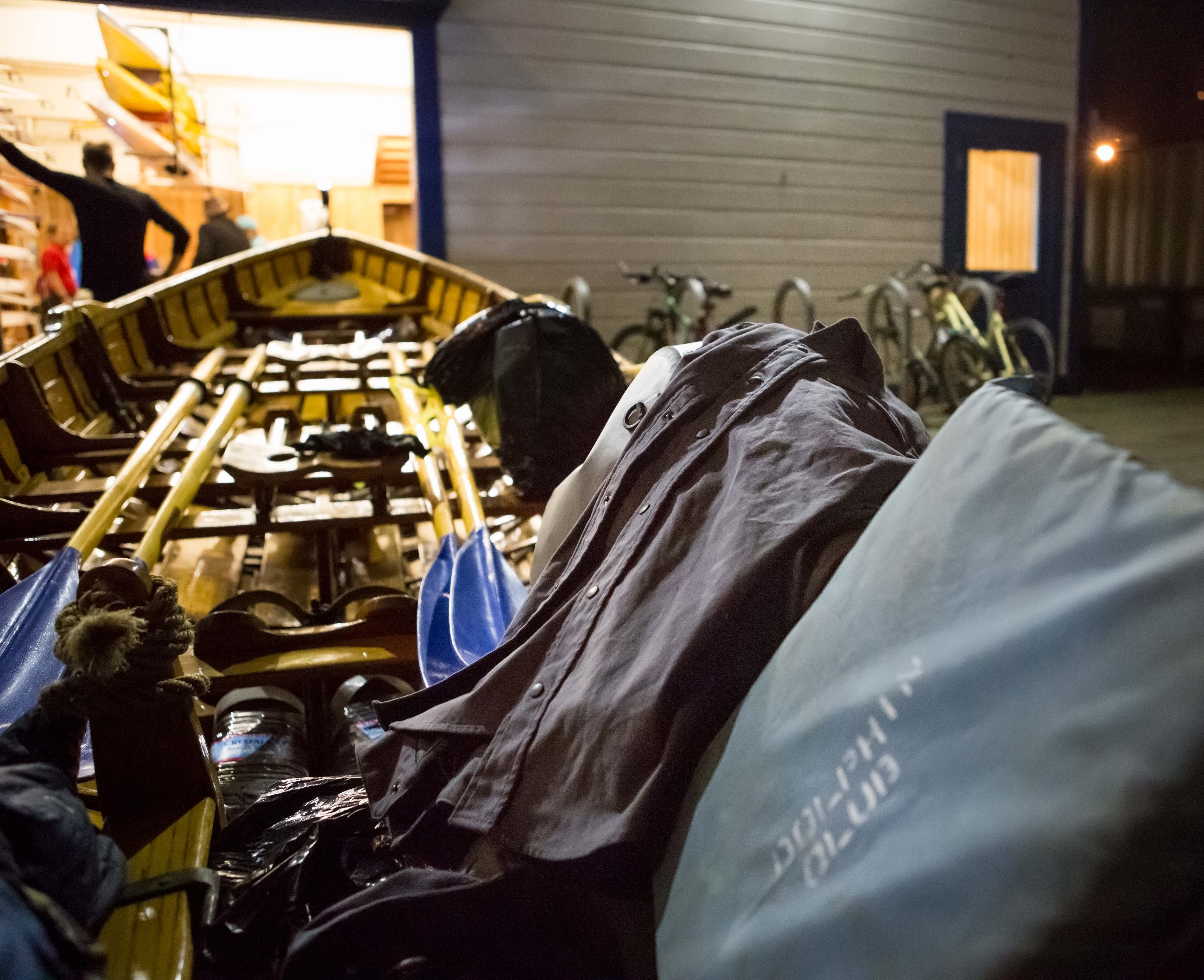 Dolphin Club rowboat ready in preparation to do an annual row from SF to Sacramento